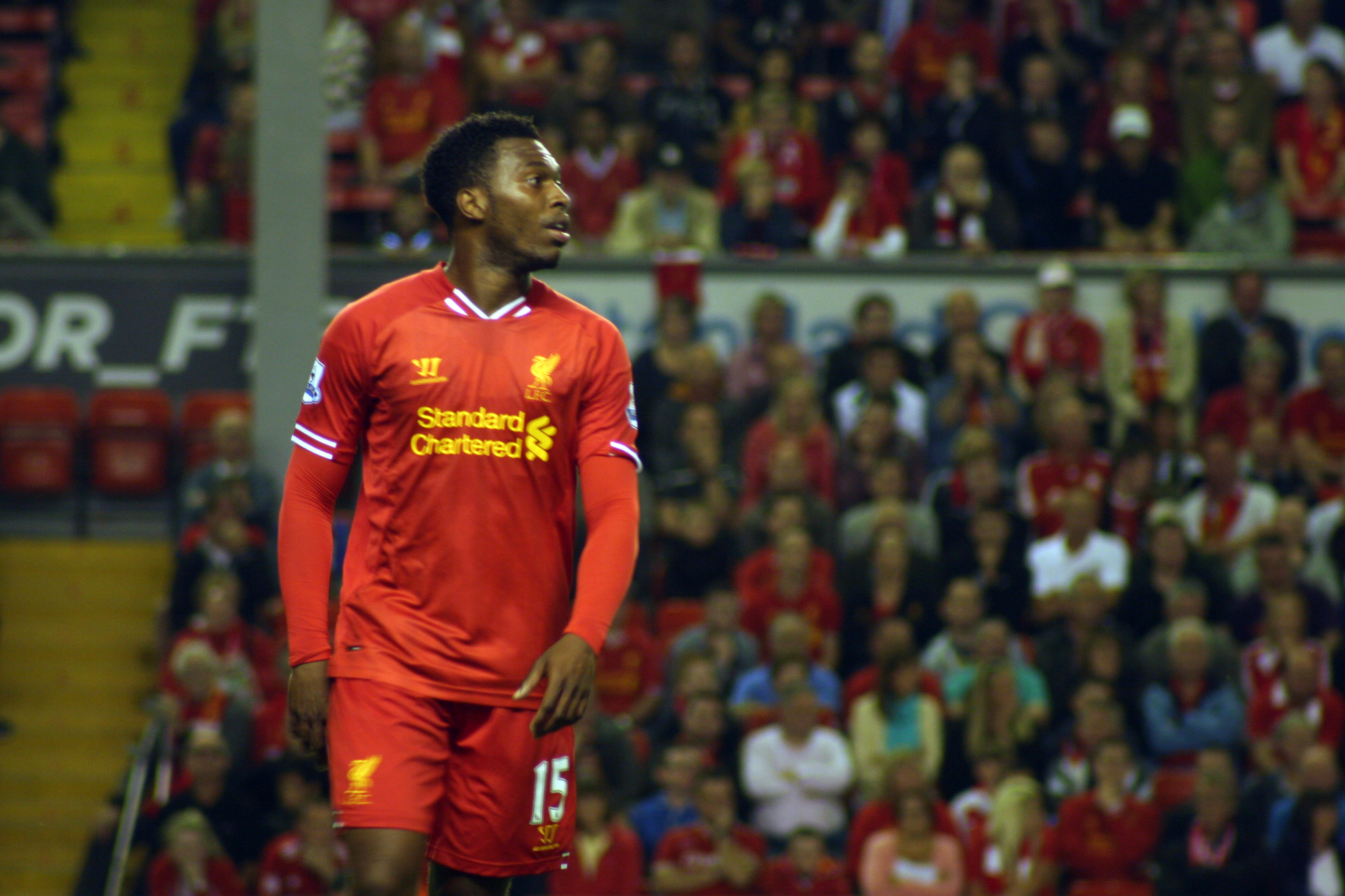 Daniel Sturridge playing for Liverpool FC in 2013.